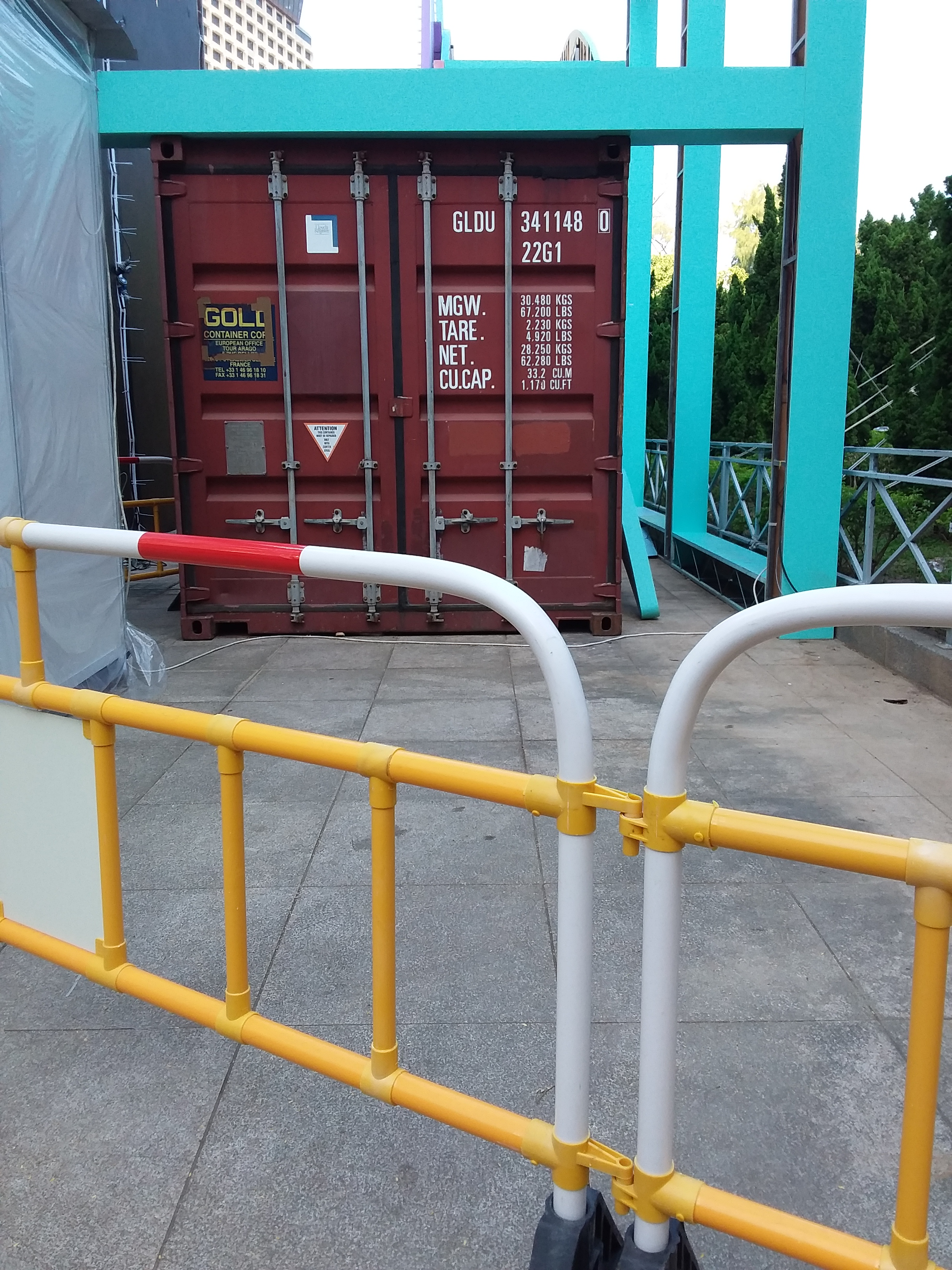 HK CWB 銅鑼灣 Causeway Bay :zh:維多利亞公園 Victoria Park 香港工展會 HKBPE in December 2019 Container information: OWNER'S LOGO, BIC code serial number check digit size and type code Maximum gross weight Tare weight Maximum payload Capacity Height warning Manufacturer's logo